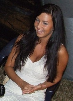 This photo was taken by Krisztian Gulyas after an Ewa Sonnet concert in Jarocin, Poland on 8 July, 2006. I have permission from the photographer to publish the photo.